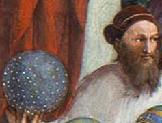 A portrait of Hipparchus of Nicaea from "The School of Athens" by Raphael